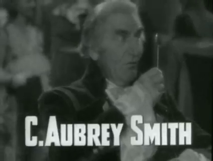 C. Aubrey Smith in Lloyd's of London 1936 Henry King